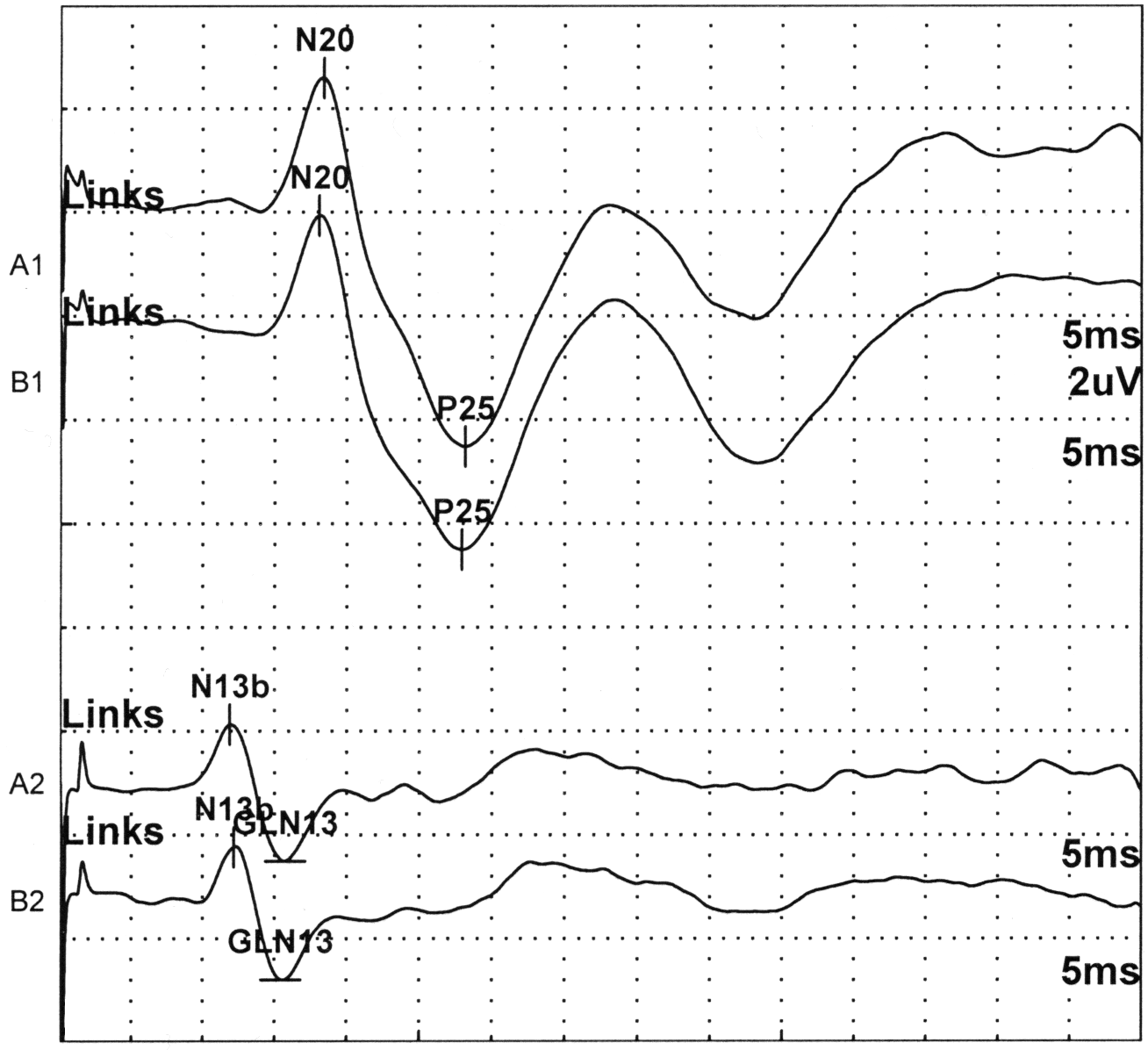 Somatosensory evoked potential of the left Median Nerve